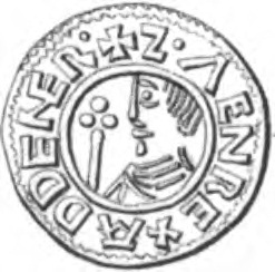 Coin of Sweyn Forkbeard.